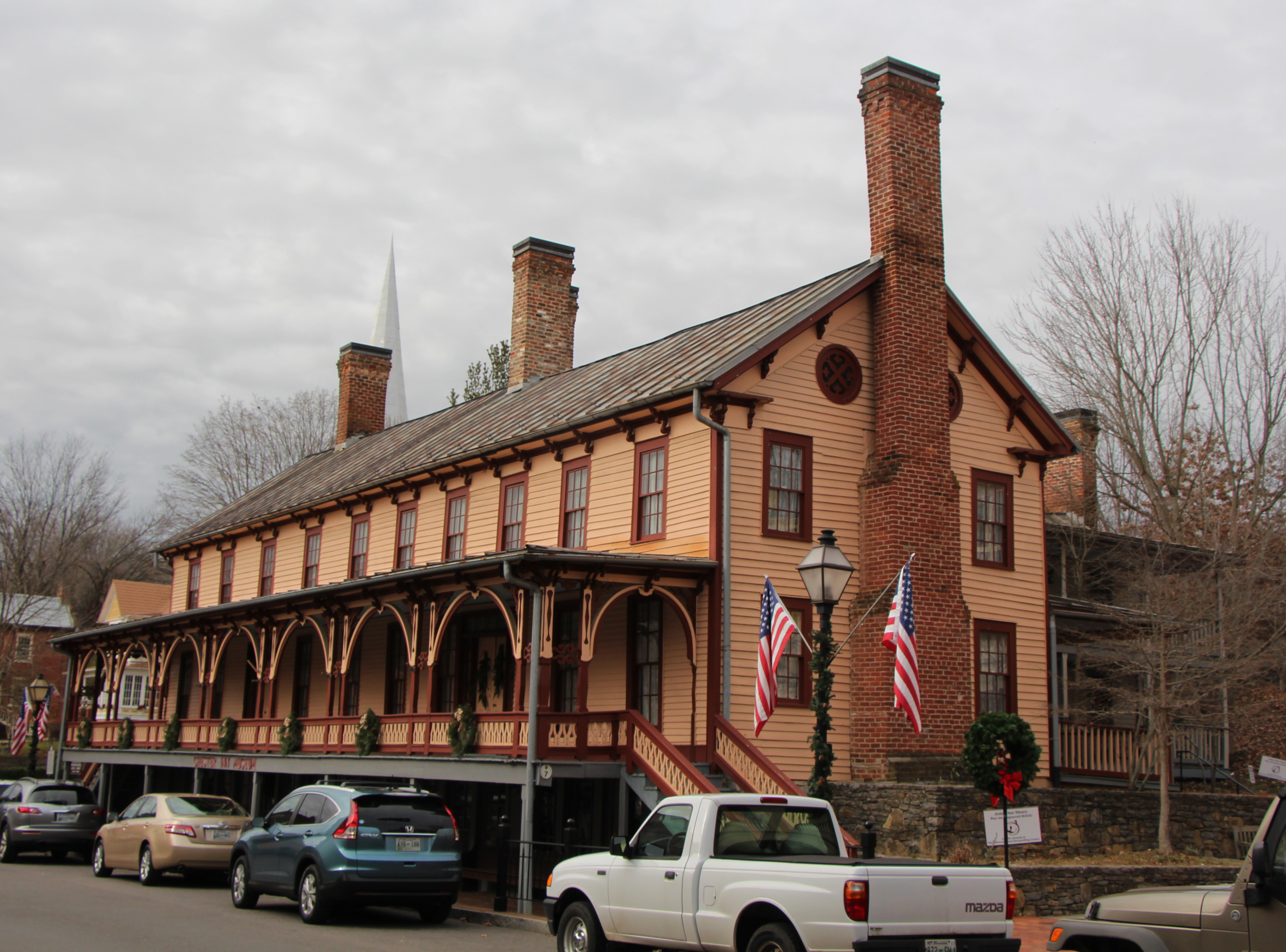 Chester Inn